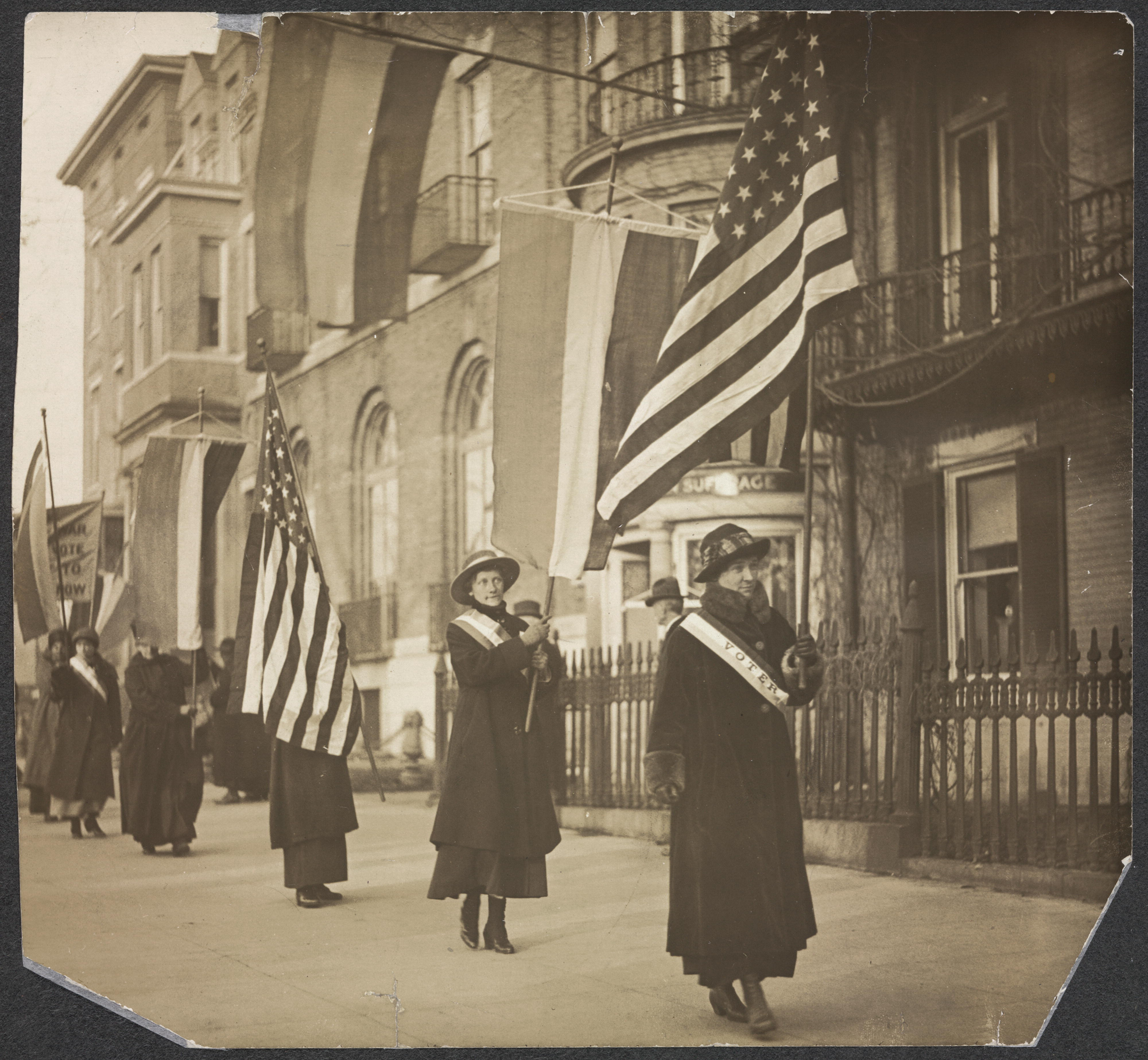 Women pickets in suffrage procession down city sidewalk. Two hold American flags, three hold suffrage color banners, and one a banner with text (obscured). Lead woman (Hazel Hunkins-Hallinan) carrying American flag wears sash that reads "Voter." Two men stand by in background (against fence) watching the pickets.